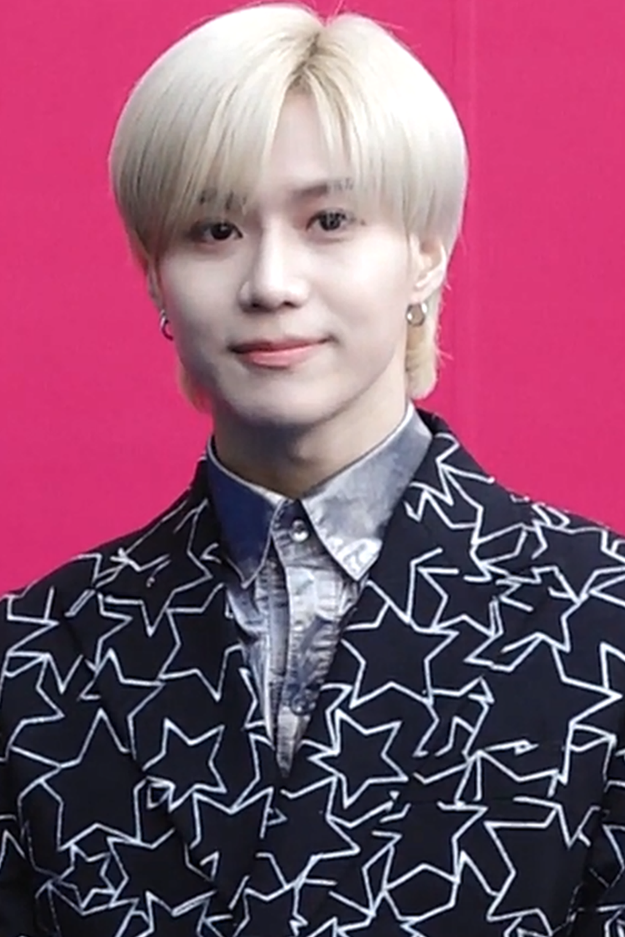 Lee Tae-min during the 2019 F/W Seoul Fashion Week on March 24, 2019.